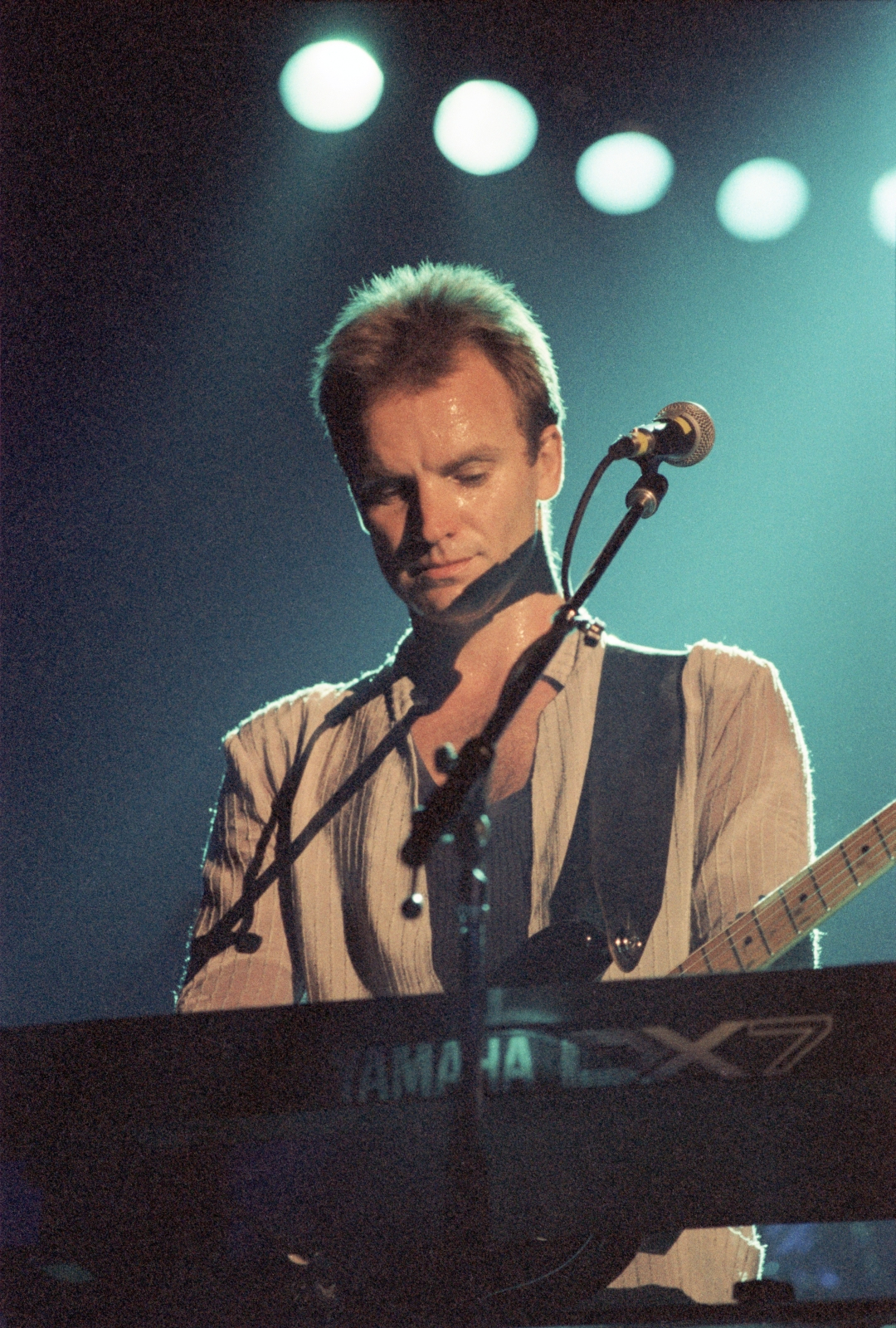 Sting at Paris-Bercy May 3, 1986.